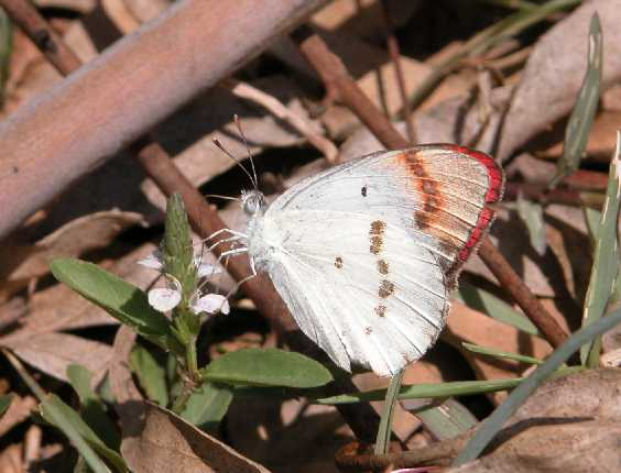 Crimson-Tip (Colotis danae) underside view photographed at Bangalore